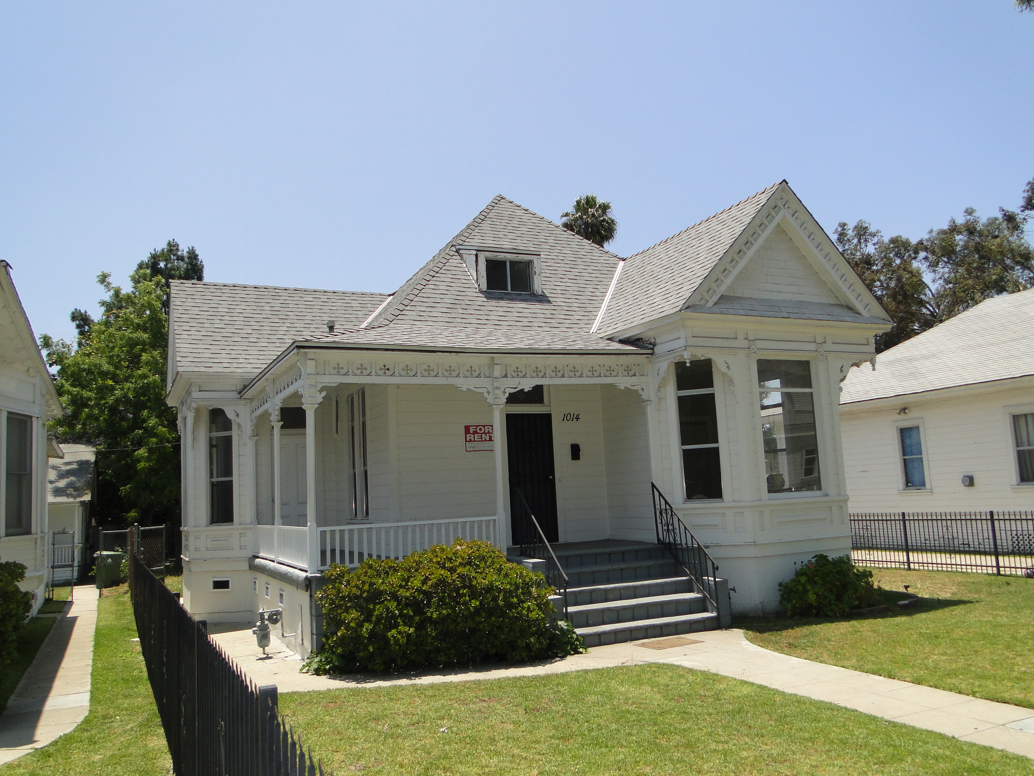 Residence at 1014 E. 27th Street, Los Angeles, California - Victorian Queen Anne style house constructed in 1895 (part of NRHP-listed 27th Street Historic District